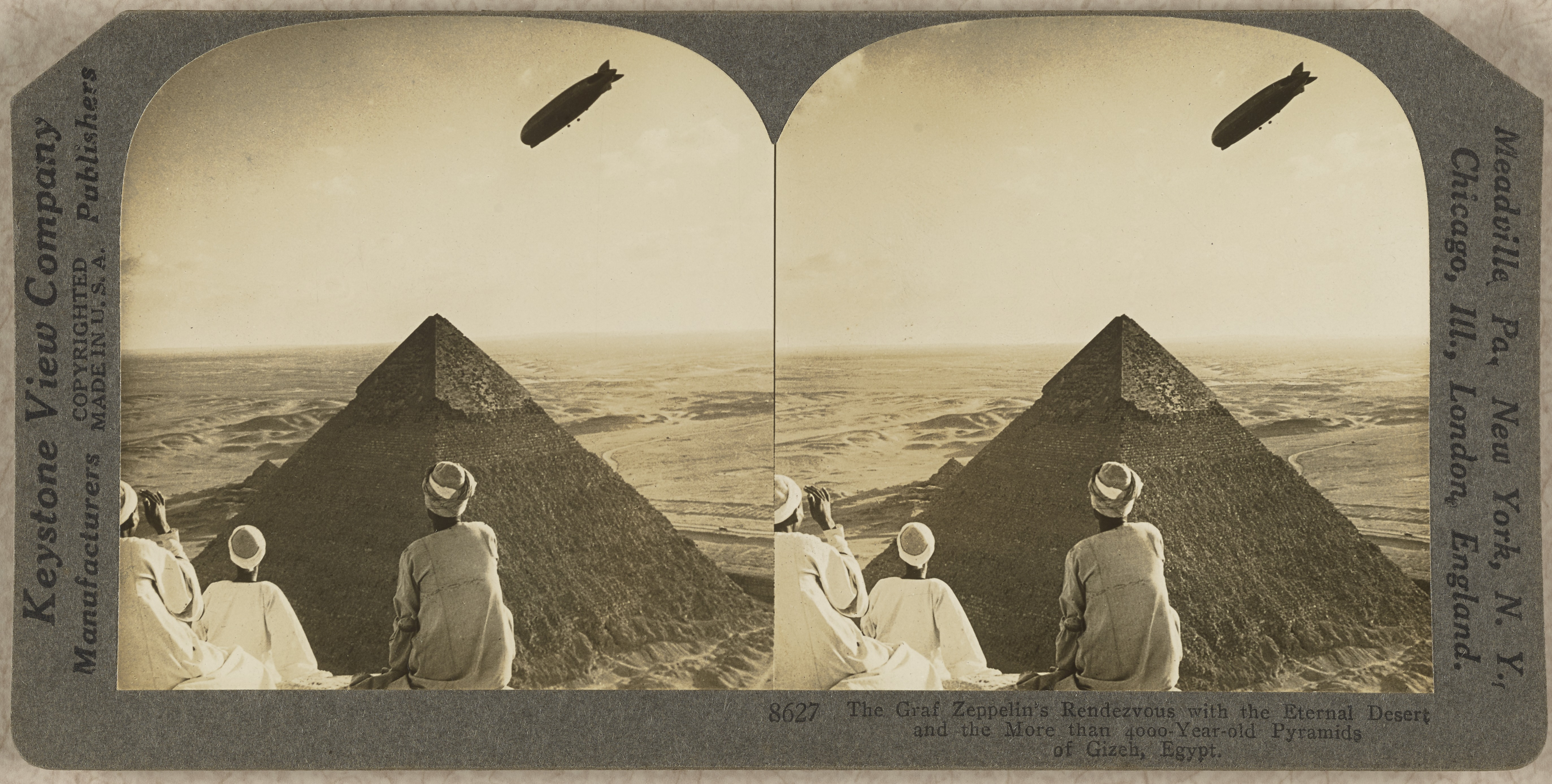 Stereograph of LZ 127 Graf Zeppelin flying over Cairo, Egypt on April 10, 1931.